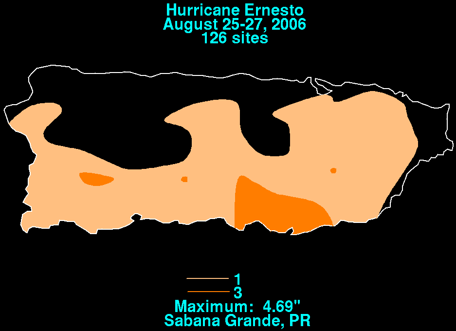 Rainfall produced by Hurricane Ernesto in Puerto Rico during August 2006.